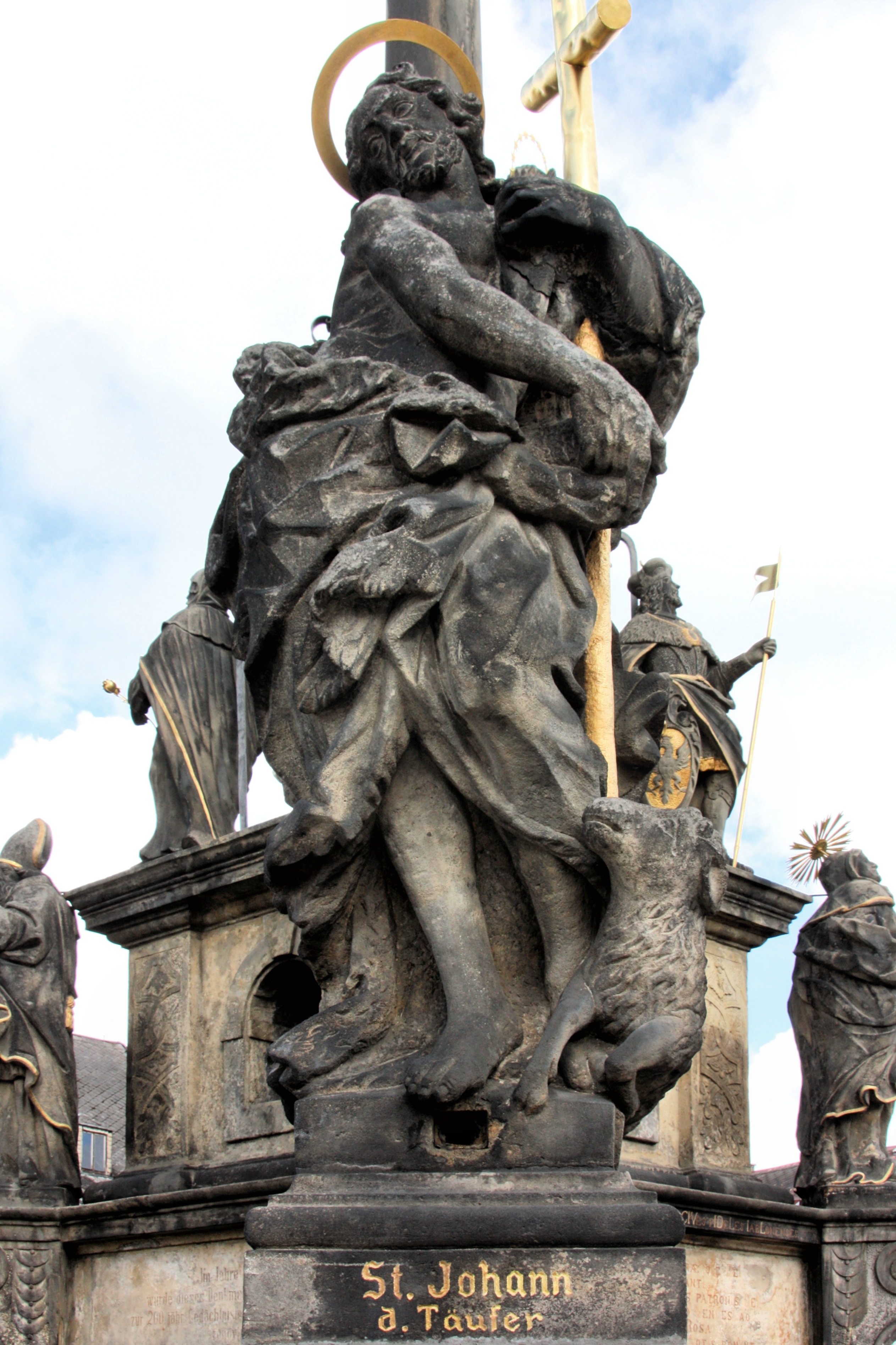 Statue of John the Baptist on the Plague Column in Jablonné v Podještědí, Czech Republic